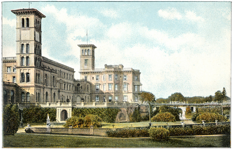 OSBORNE HOUSE.—This view of Osborne from the south lawn is the most picturesque, and gives the late Queen's apartments standing out in bold relief in the centre of the picture. The terraces below adorn the building, and the rosary which extends on the right to the lawn is gay with a blaze of colour in the month of June. Now that Osborne has been made into a Naval College, the grounds are open to visitors on Fridays in the winter, and on Tuesdays and Fridays in the summer season; it is visited by many thousands during the year.